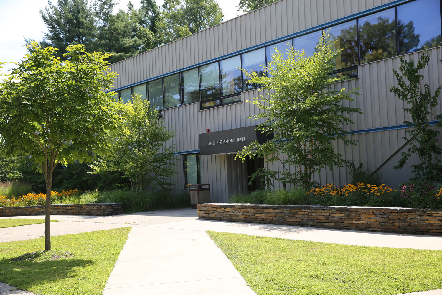 photo of Adele Simmons Hall, home to Hampshire's School of Cognitive Science